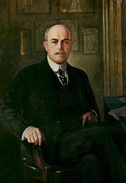 Portrait of Nicholas Longworth (1869-1931), a Representative from Ohio; born in Cincinnati, Ohio, November 5, 1869; attended the Franklin School in Cincinnati, and was graduated from Harvard University in 1891; spent one year at Harvard Law School and was graduated from the Cincinnati Law School in 1894; was admitted to the bar in 1894 and commenced practice in Cincinnati, Ohio; member of the board of education of Cincinnati in 1898; member of the State house of representatives in 1899 and 1900; served in the State senate 1901-1903; elected as a Republican to the Fifty-eighth and to the four succeeding Congresses (March 4, 1903-March 3, 1913); unsuccessful candidate for reelection in 1912 to the Sixty-third Congress; elected to the Sixty-fourth and to the eight succeeding Congresses and served from March 4, 1915, until his death; majority leader (Sixty-eighth Congress), Speaker of the House of Representatives (Sixty-ninth through Seventy-first Congresses); died in Aiken, S.C., while on a visit, April 9, 1931; interment in Spring Grove Cemetery, Cincinnati, Ohio.